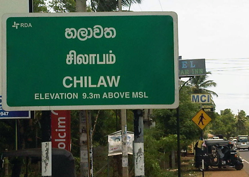 Chilaw sign board at the entrance of the town.